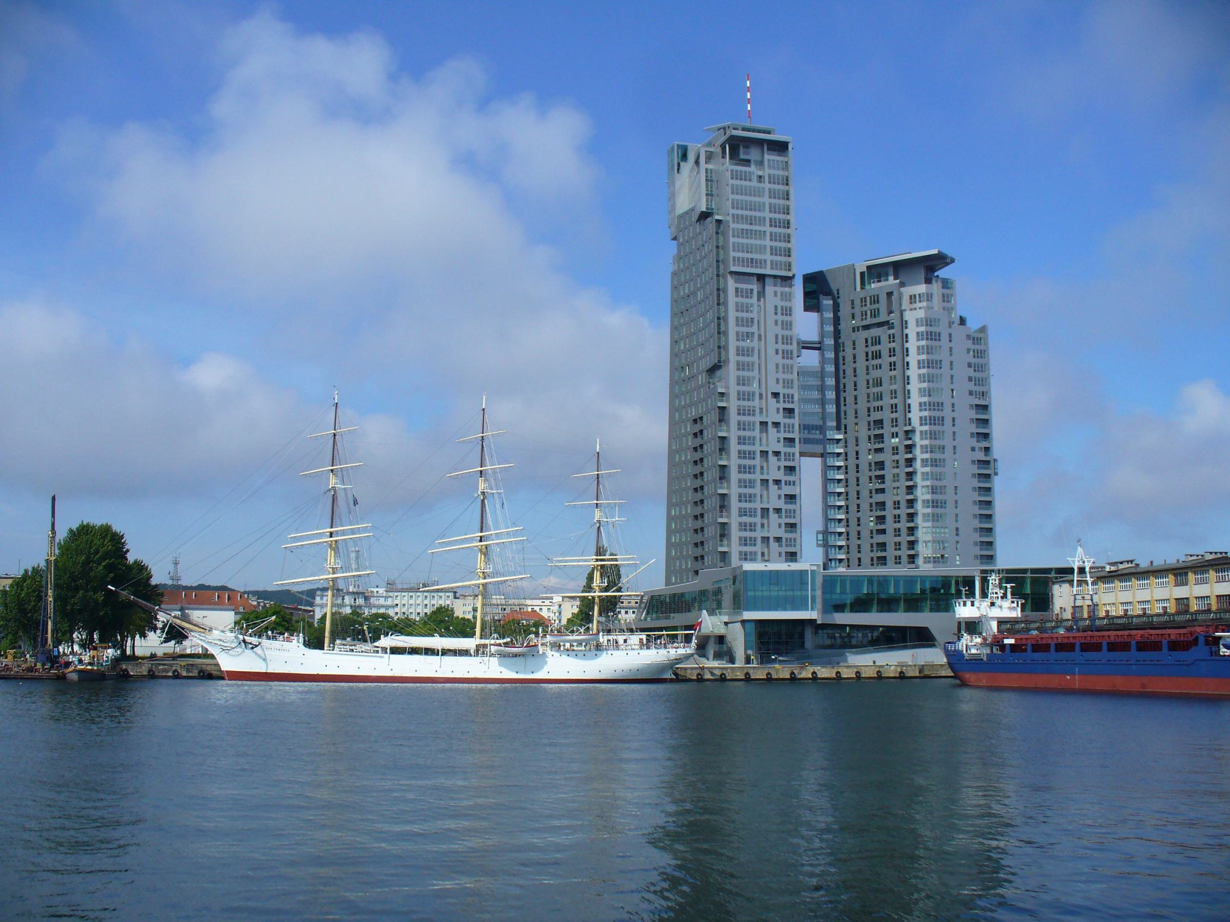 Poland, Gdynia, (Museum ships in Gdynia) and Sea Towers